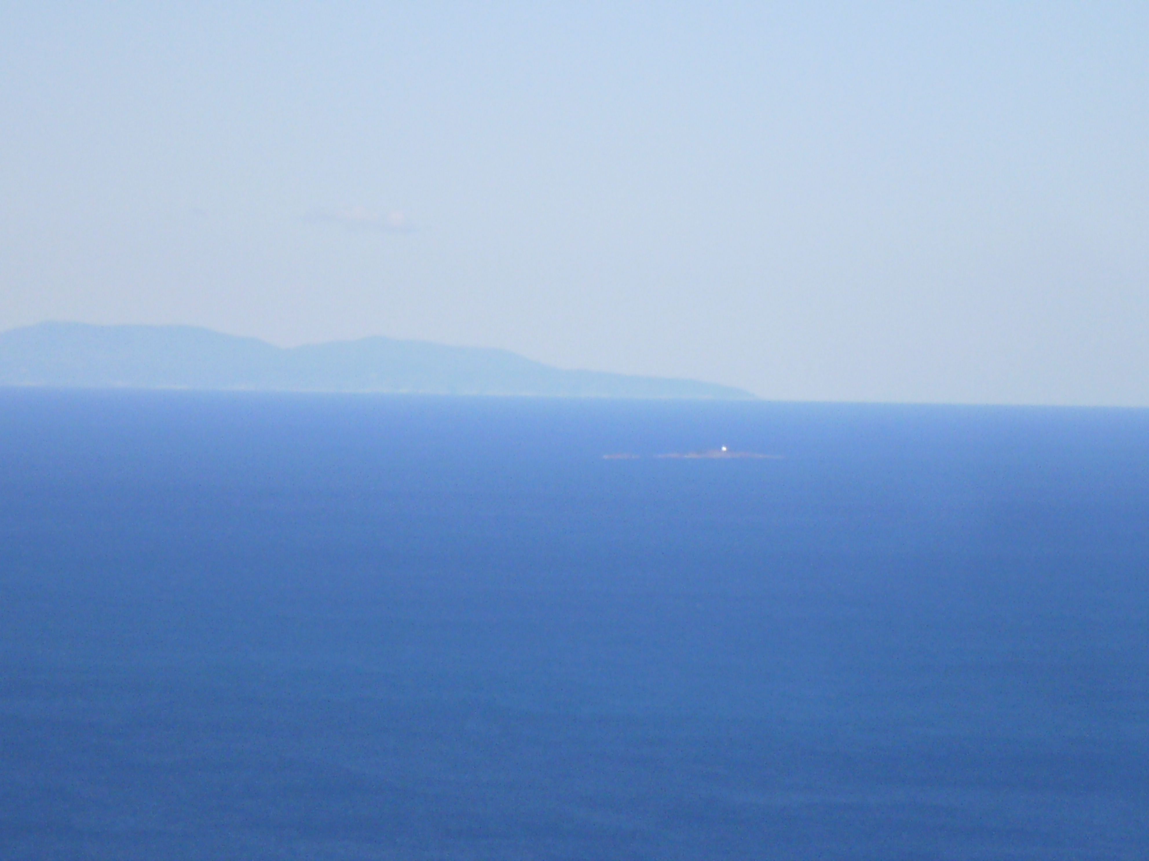 Island of Pločica OLYMPUS DIGITAL CAMERA